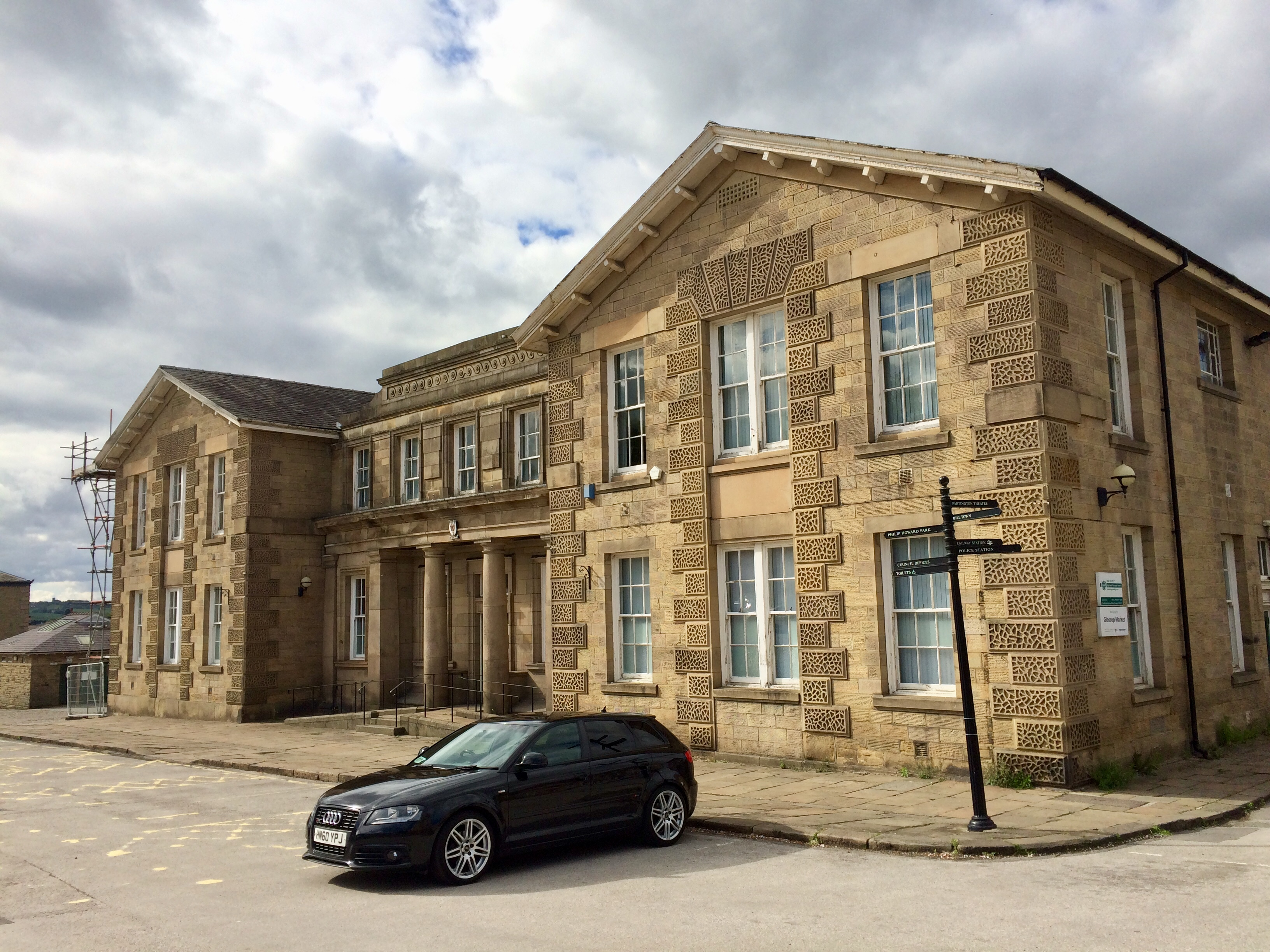 Glossop Municipal Buildings, May 2020